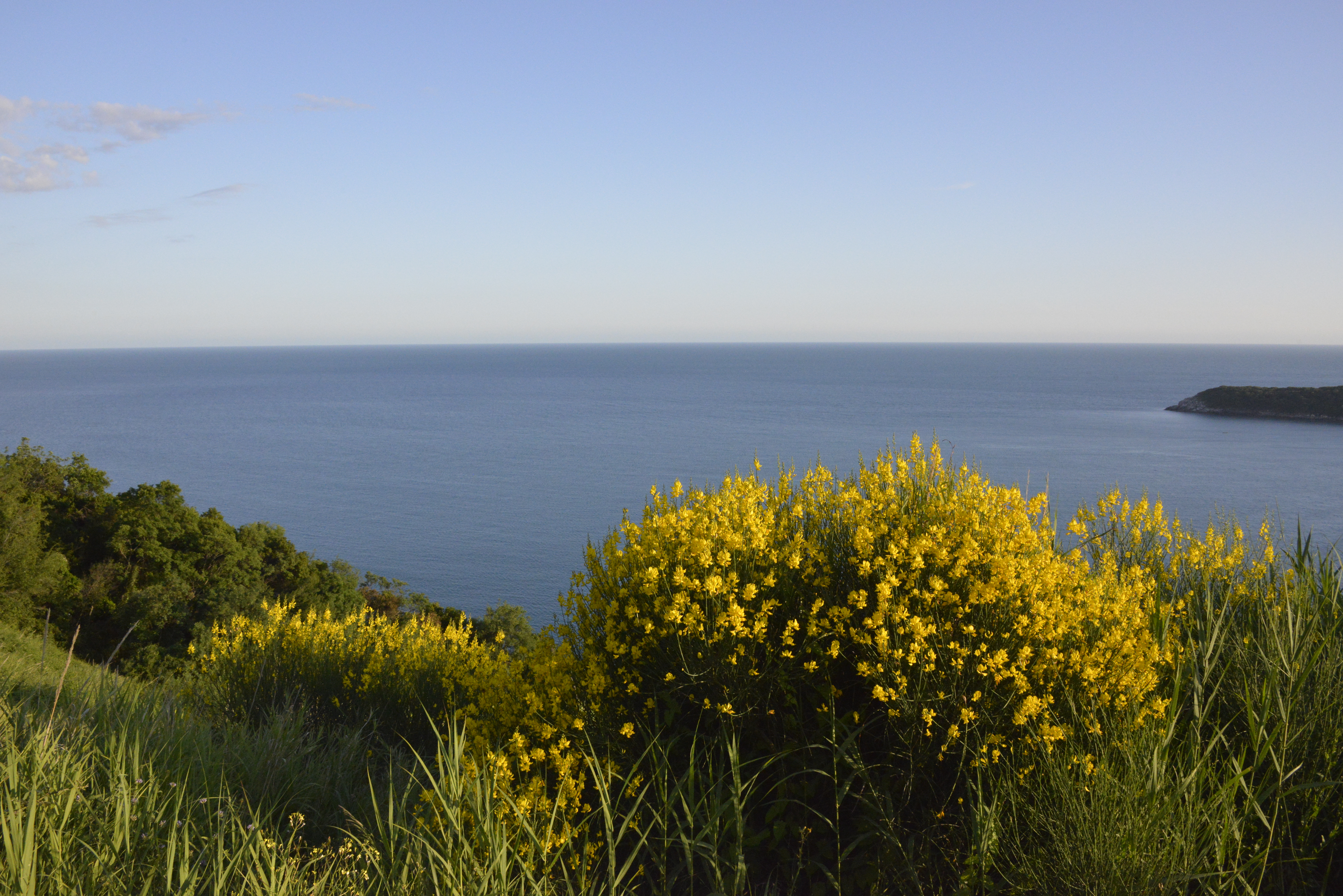 Nature and plants of Budva, Montenegro